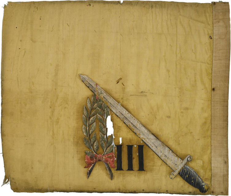 Silk painted flag of the Third Company, Third Connecticut Regiment, Continental Army, with a silver sword, green "III" and a green garland tied with a red ribbon painted in the lower left corner extending into the center on a white ground; tan linen sleeve for the flagstaff. New-York Historical Society